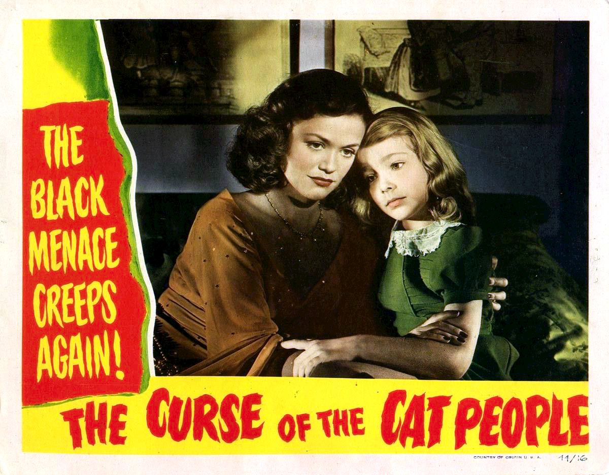 Lobby card from the 1944 film Curse of the Cat People with Simone Simon and Ann Carter.